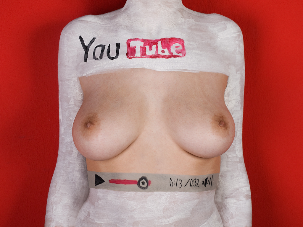 Model: Olga BelleMorte